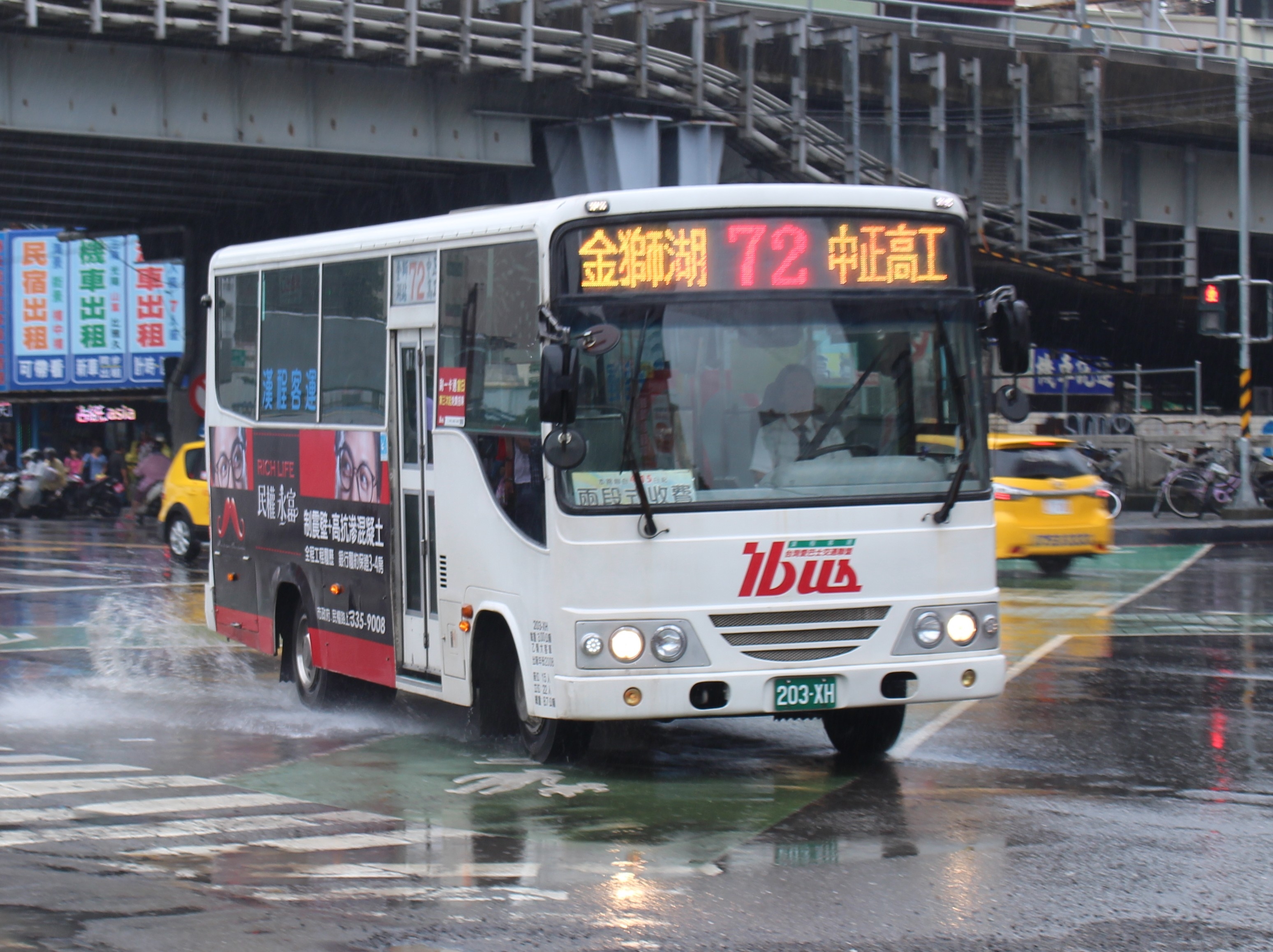 ISUZU NQR75PBL of Han-Cheng Bus 203-XH